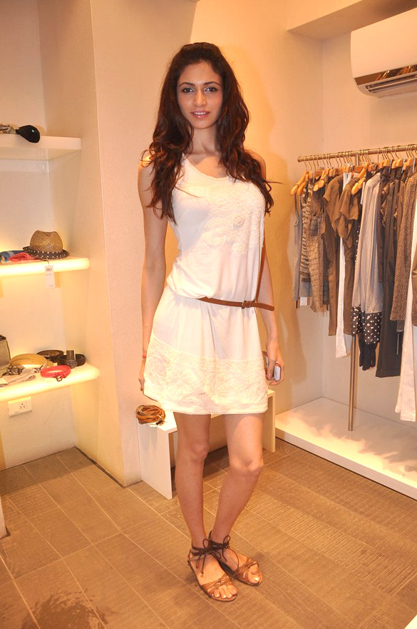 Simran Kaur Mundi at Marc Cains preview.